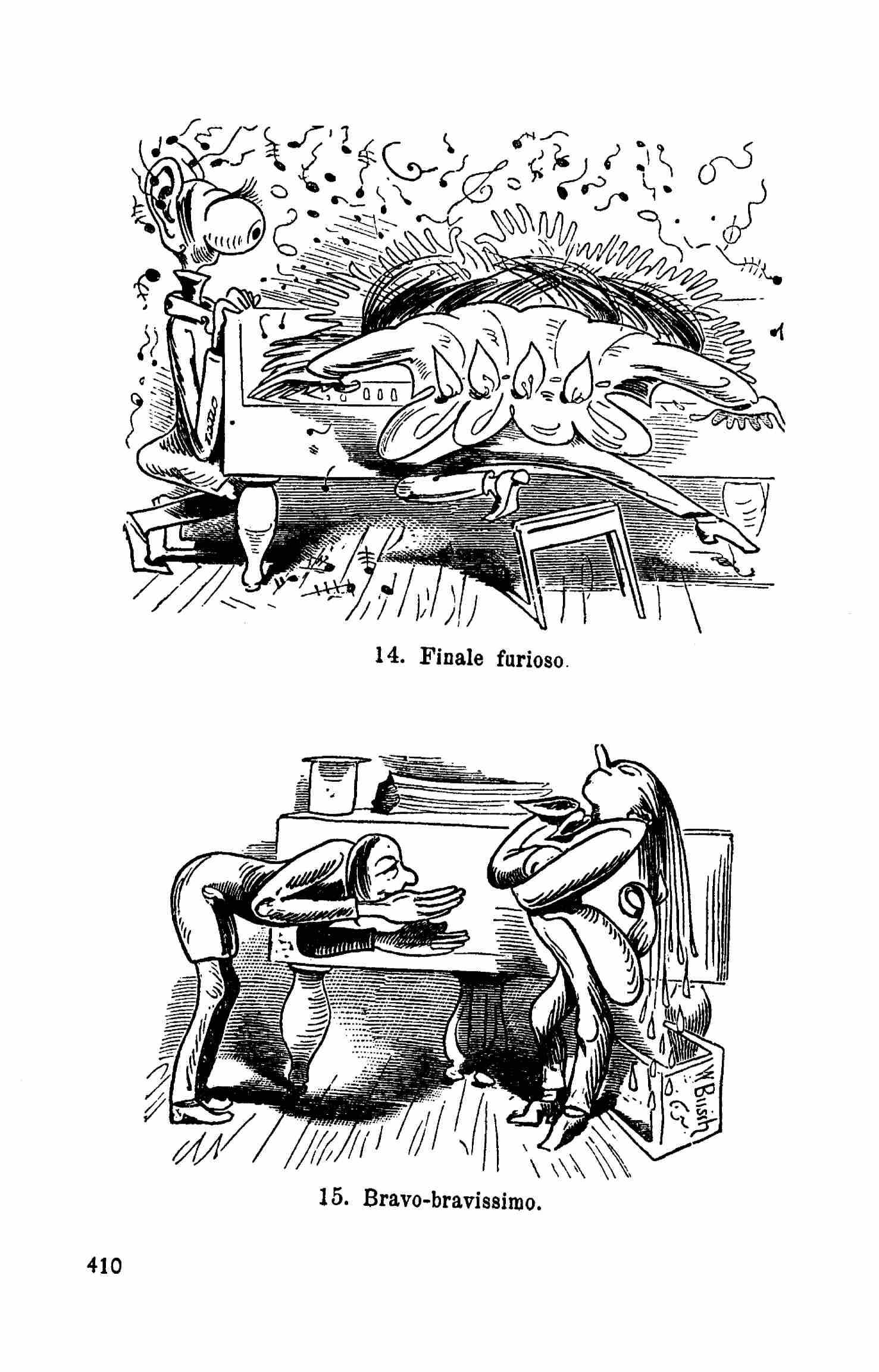 This is a scan of the historical document